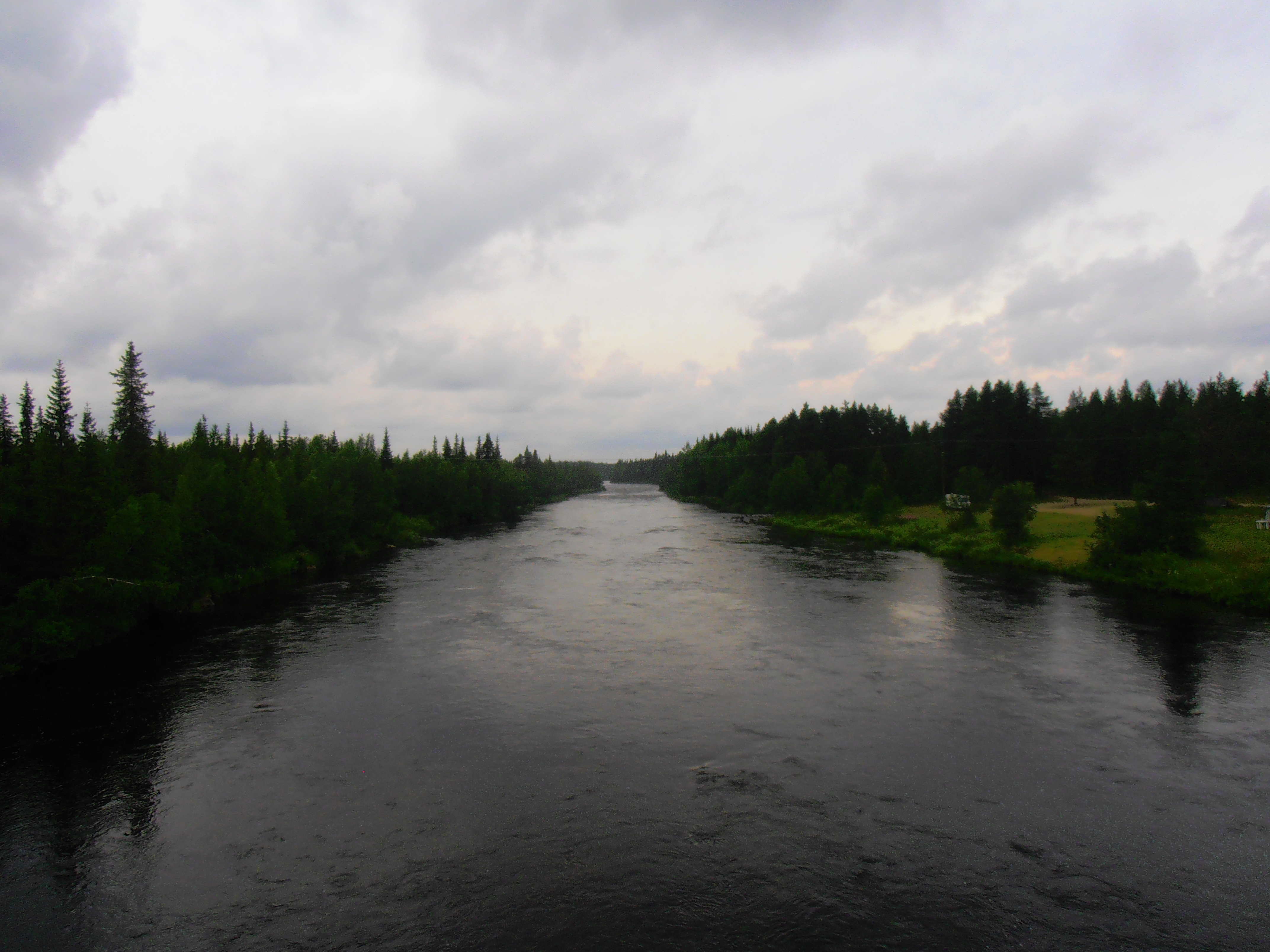 The Lina river, Gällivare